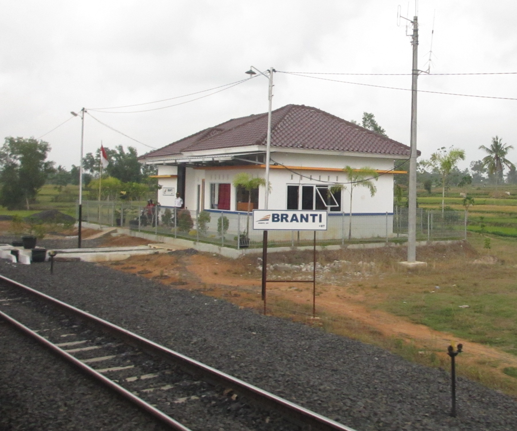 Branti Railway Station.